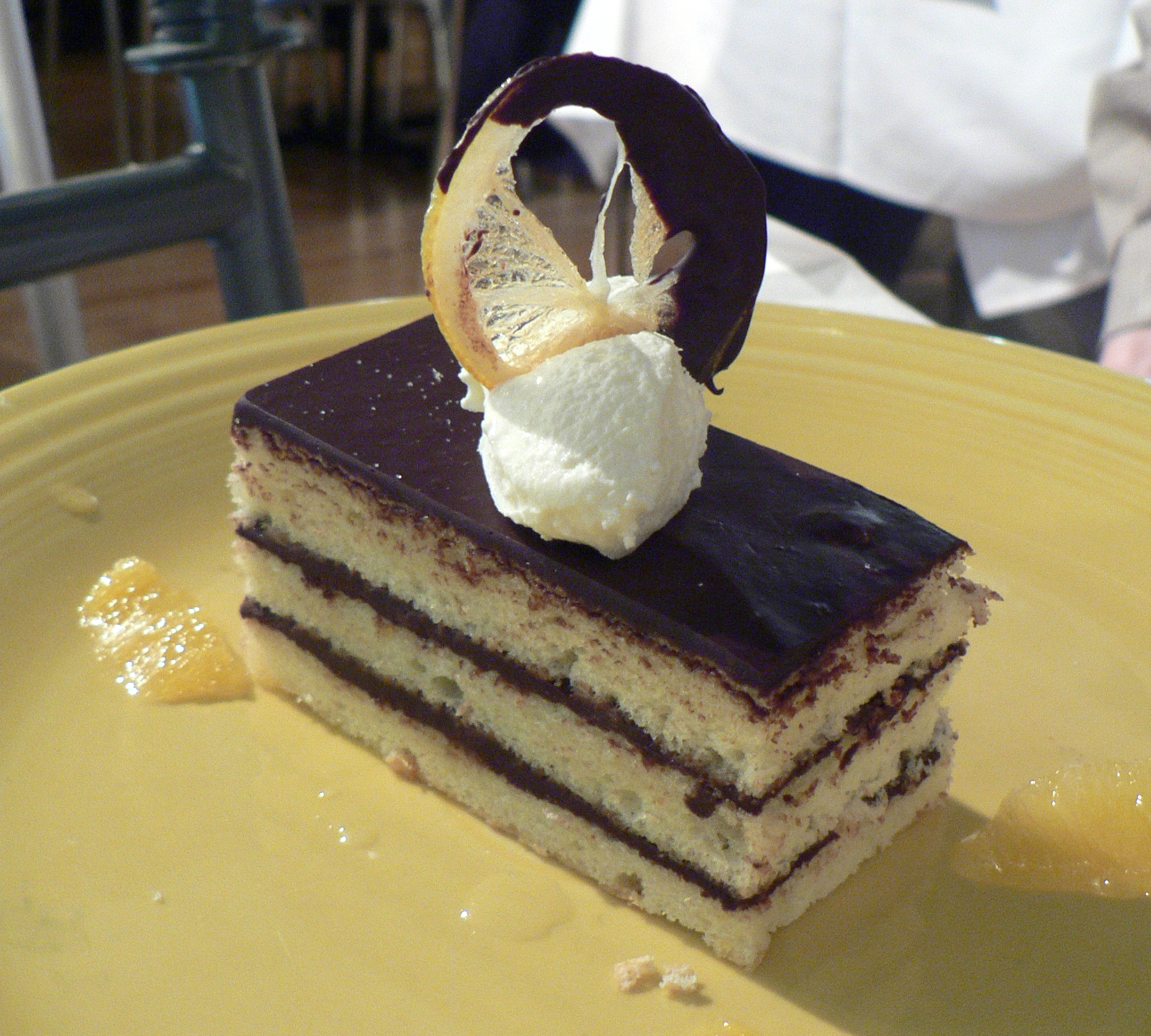 meyer lemon chiffon cake, lavender honey poached lemons, whipped cream and candied lemon dipped in chocolate